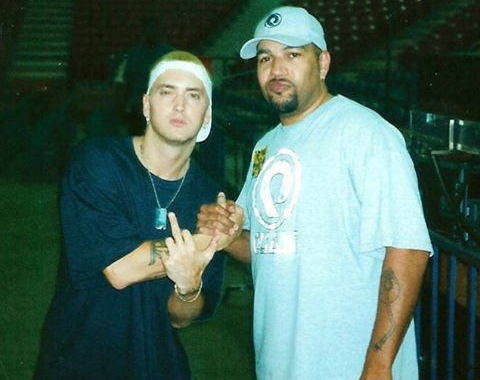 #tbt w/ @eminem Up In Smoke Tour at ARCO Arena. I DJ'd the opening set before the concert started. 17k people. Pretty cool...